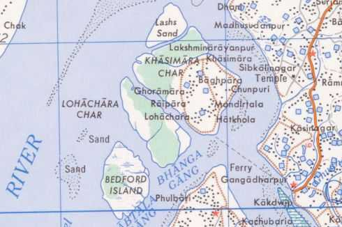 Map of Lohachara Island in India, 50% quality map by U.S. Army Map Service. Compiled in 1954.